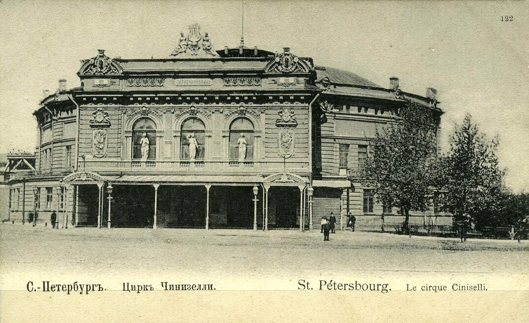 Circus Ciniselli in Saint Petersburg